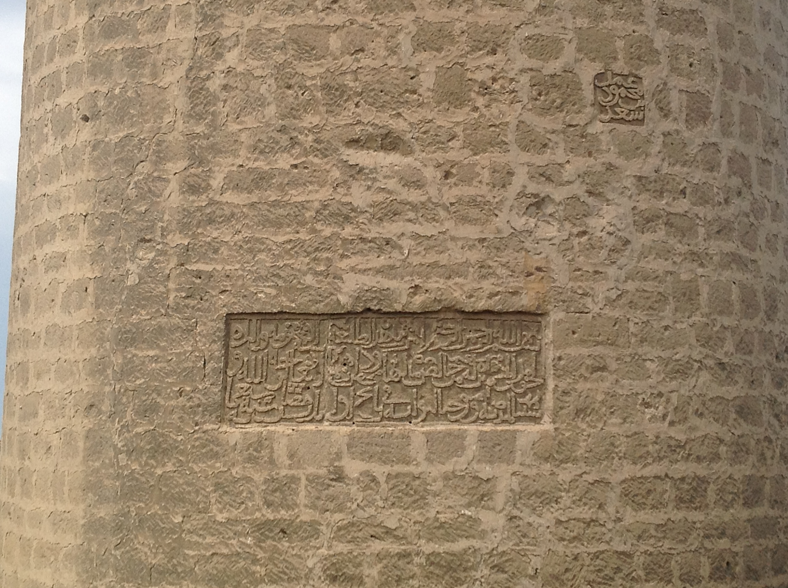 Two epigraphic inscriptions on the tower in Nardaran fortress (Nardaran (Baku), Azerbaijan).